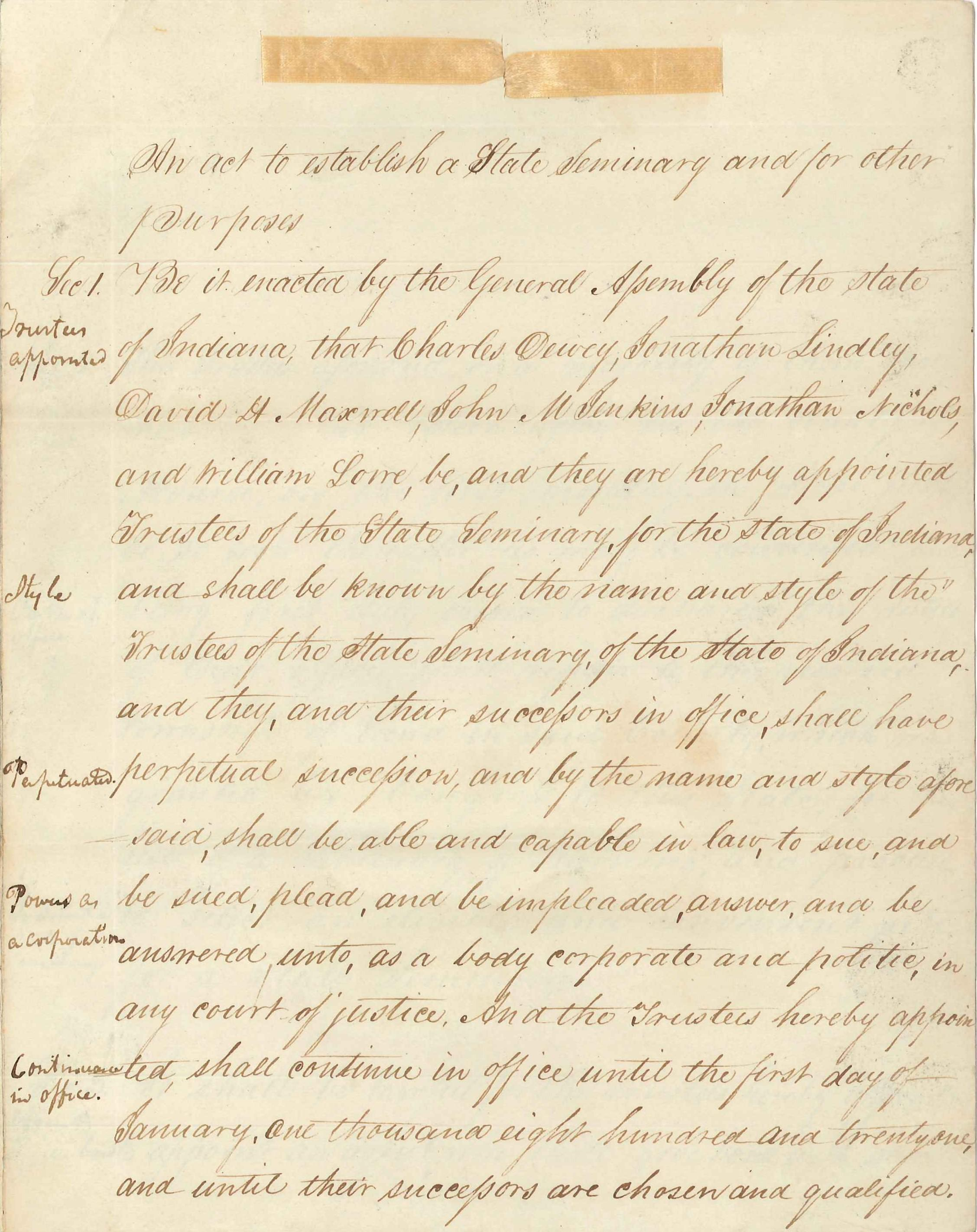 You can read the full text on Indiana Memory here (pages 82-83): While this act would establish the institution that would later become Indiana University, it would not have been recognizable to modern eyes. For years the campus was just a few buildings, and enrollment was low compared to Vincennes University and Indiana Ashbury College (now DePauw). Vincennes and IU spent years in legal-political battle about who was the state school, and talk of moving IU to Indianapolis continued up until the 1920s. Despite this, the General Assembly stood behind the Seminary, upgrading it to Indiana College in 1828 and finally Indiana University in 1838. In 1854 IU's New College Building burned down, taking the University's copy of this charter along with it, along with most of the University's early records.